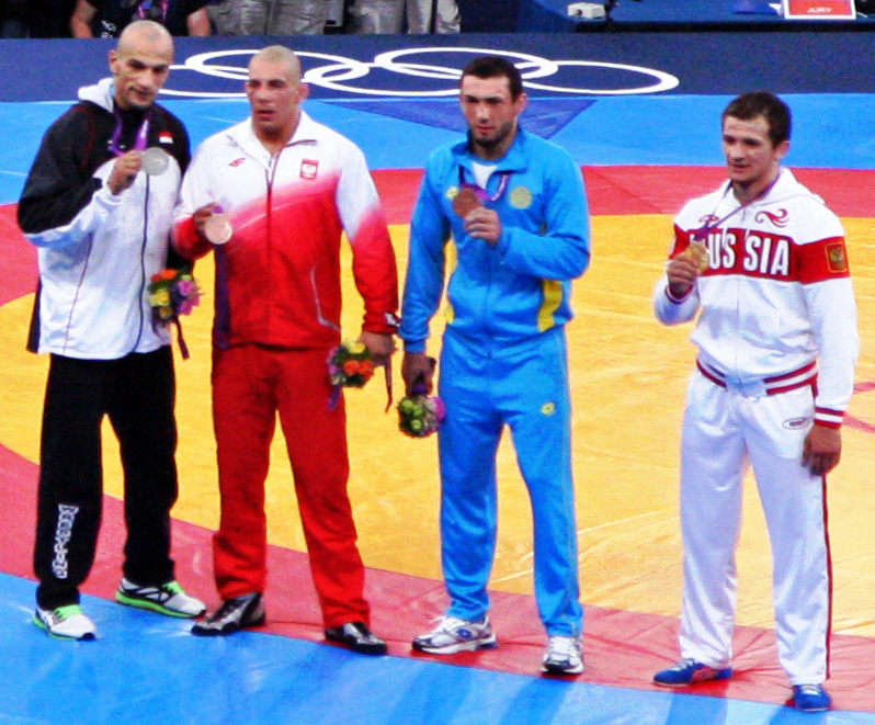 Medalists at the Men's 84 kg Greco Roman Wrestling, just after the medal ceremony. Left to right: Karam Gaber (silver), Damian Janikowski (bronze), Daniyal Gadzhiyev (bronze) and Alan Khugayev (gold).